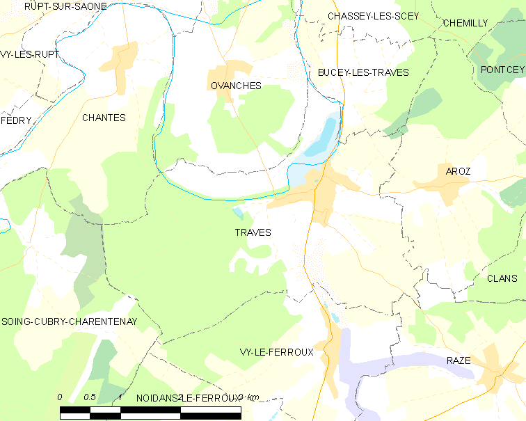 Map of French municipality